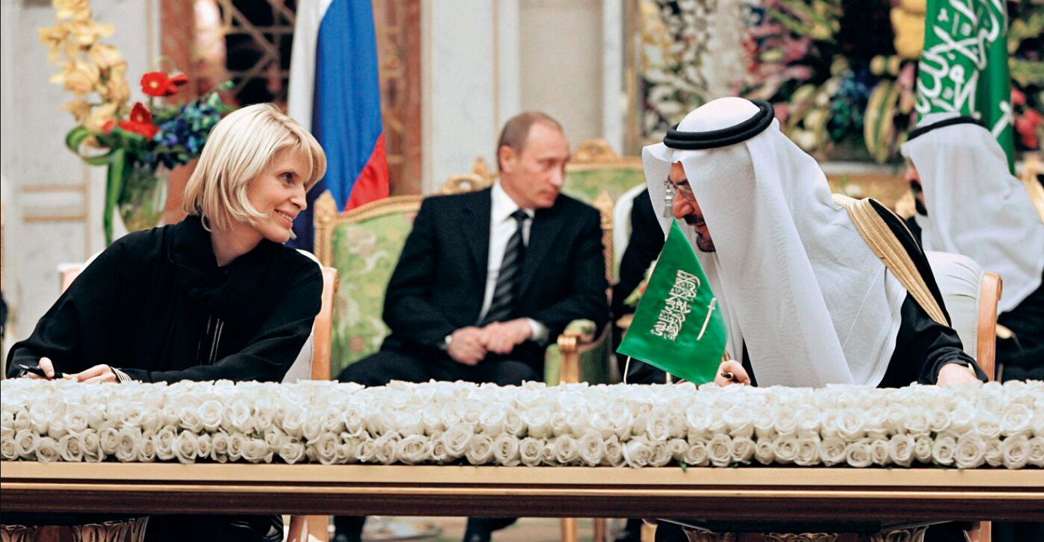 RIYADH. At the ceremony of signing Russian-Saudi documents. Svetlana Mironyuk, Head, Editor-in-Chief of the Russian Information Agency “RIA Novosti” and Ayad Madani, Minister for Culture and Information of Saudi Arabia signed the Cooperation Agreement between RIA Novosti and the Saudi Information Agency.